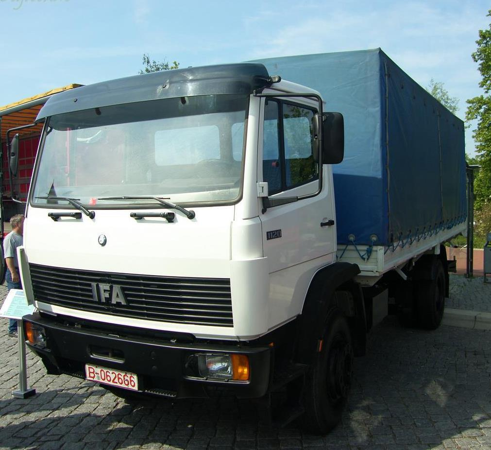 Prototype of IFA 1318 with cab of Mercedes-Benz type LK 1990